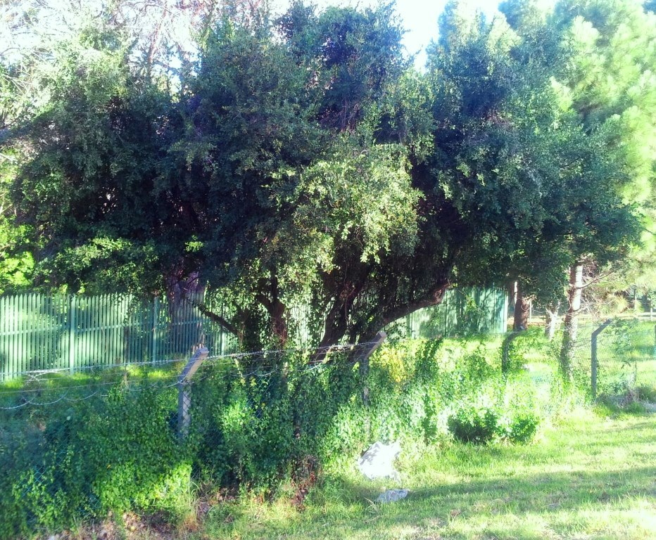 Gymnosporia heterophylla - Spikethorn Tree - Newlands Cape Town